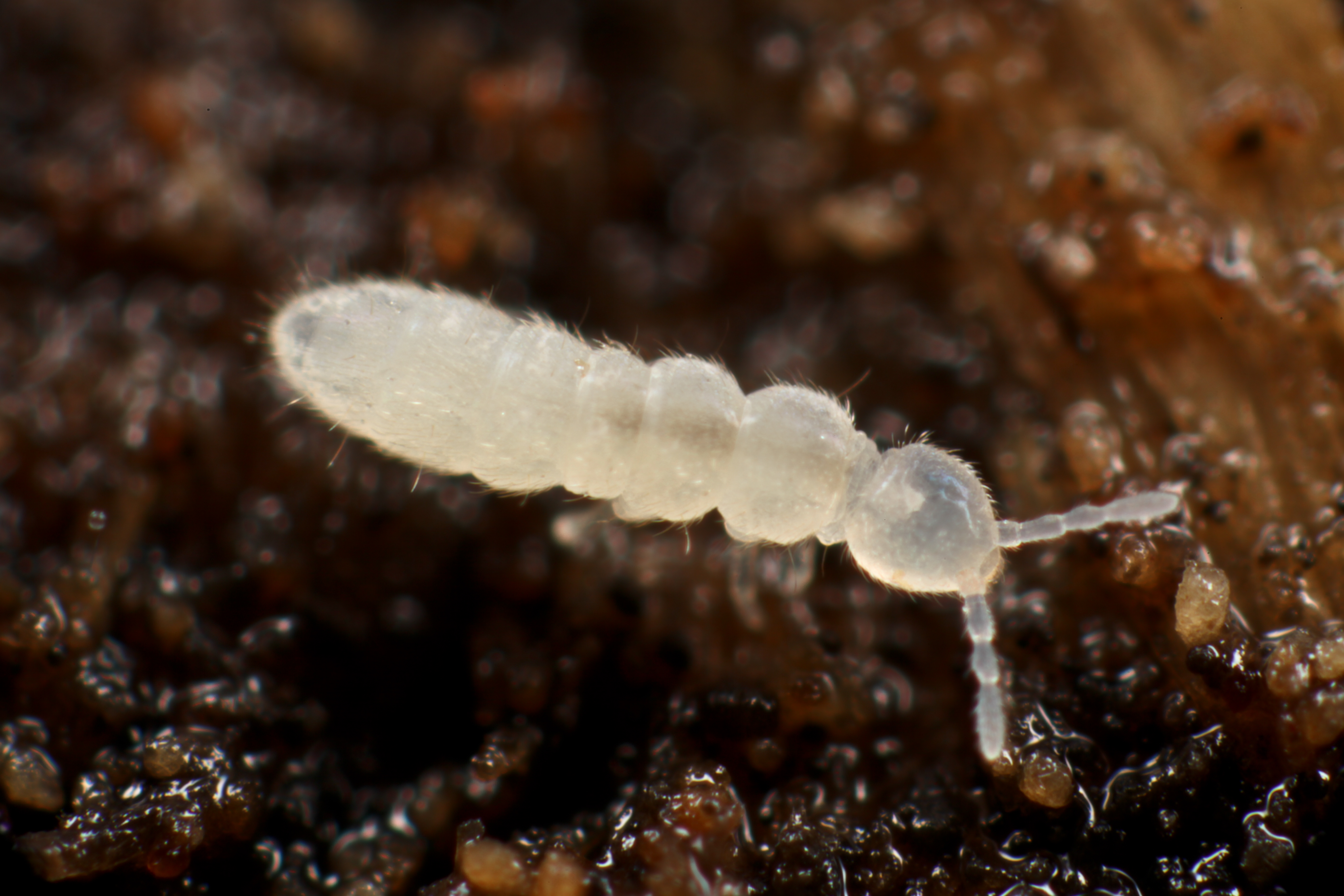 Isotomiella minor from England.